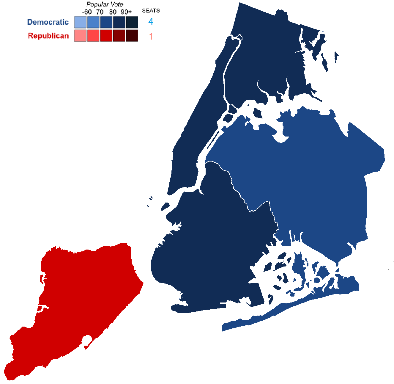 Results of the 2017 New York City Borough President elections.